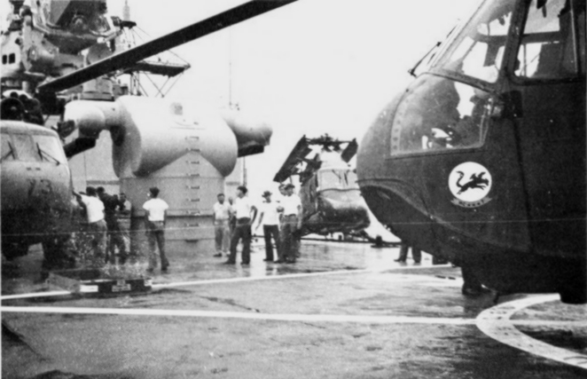 Three U.S. Navy combat search and rescue helicopters on the fantail of the guided missile cruiser USS Long Beach (CGN-9) in the Gulf of Tonkin. Visiblem are two Sikorsky HH-3A Sea King from Helicopter Combat Support Squadron HC-7 Sea Devils and a Kaman UH-2A/B Seasprite.